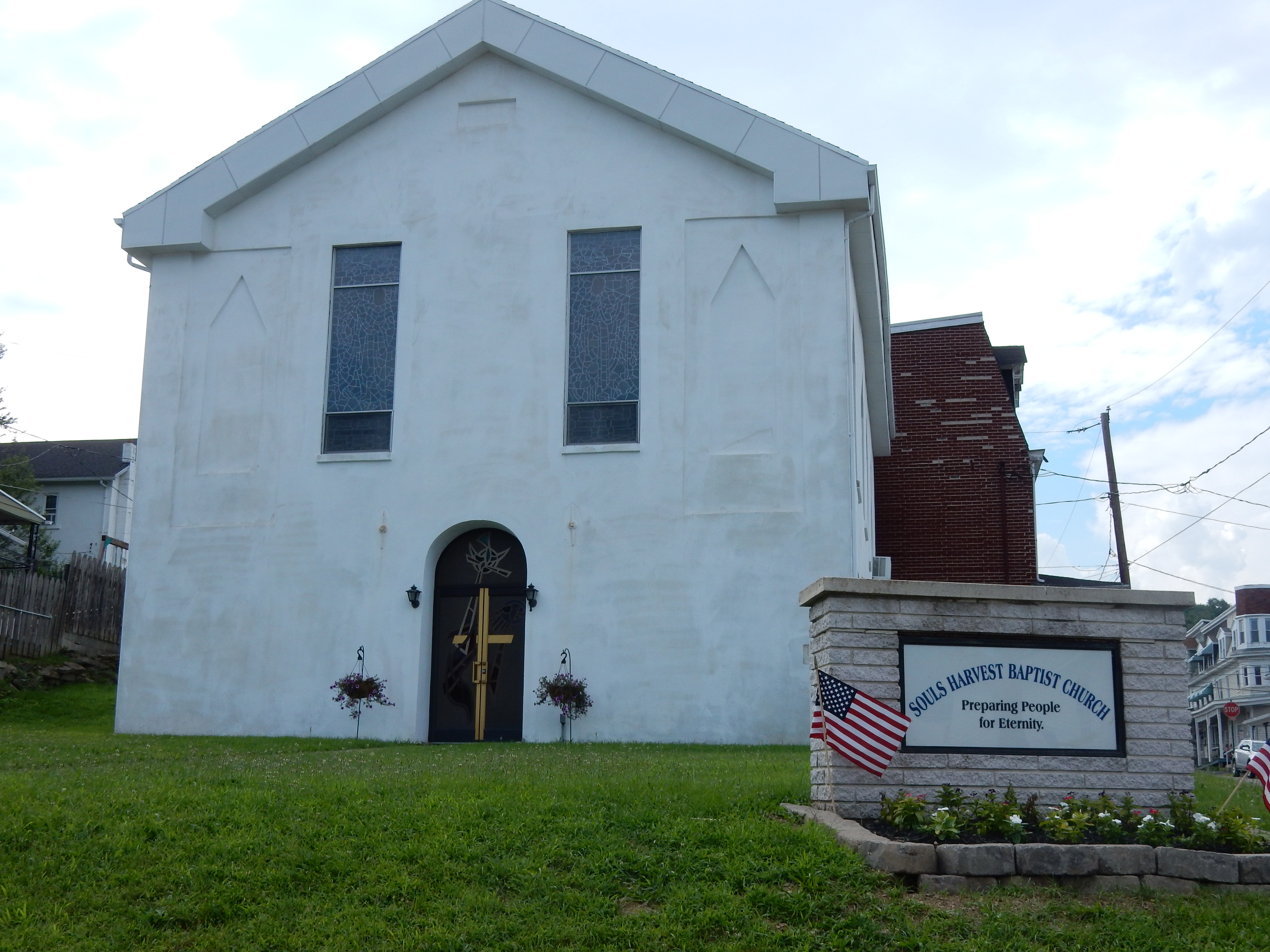 Souls Harvest Baptist Church, New Philadelphia, Schuylkill County, Pennsylvania. Corner of Clay and Kimber Sts. View from Kimbert St.